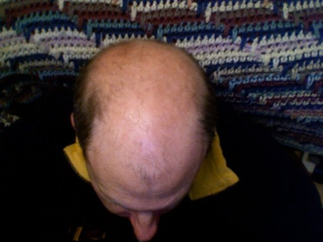 Bald head